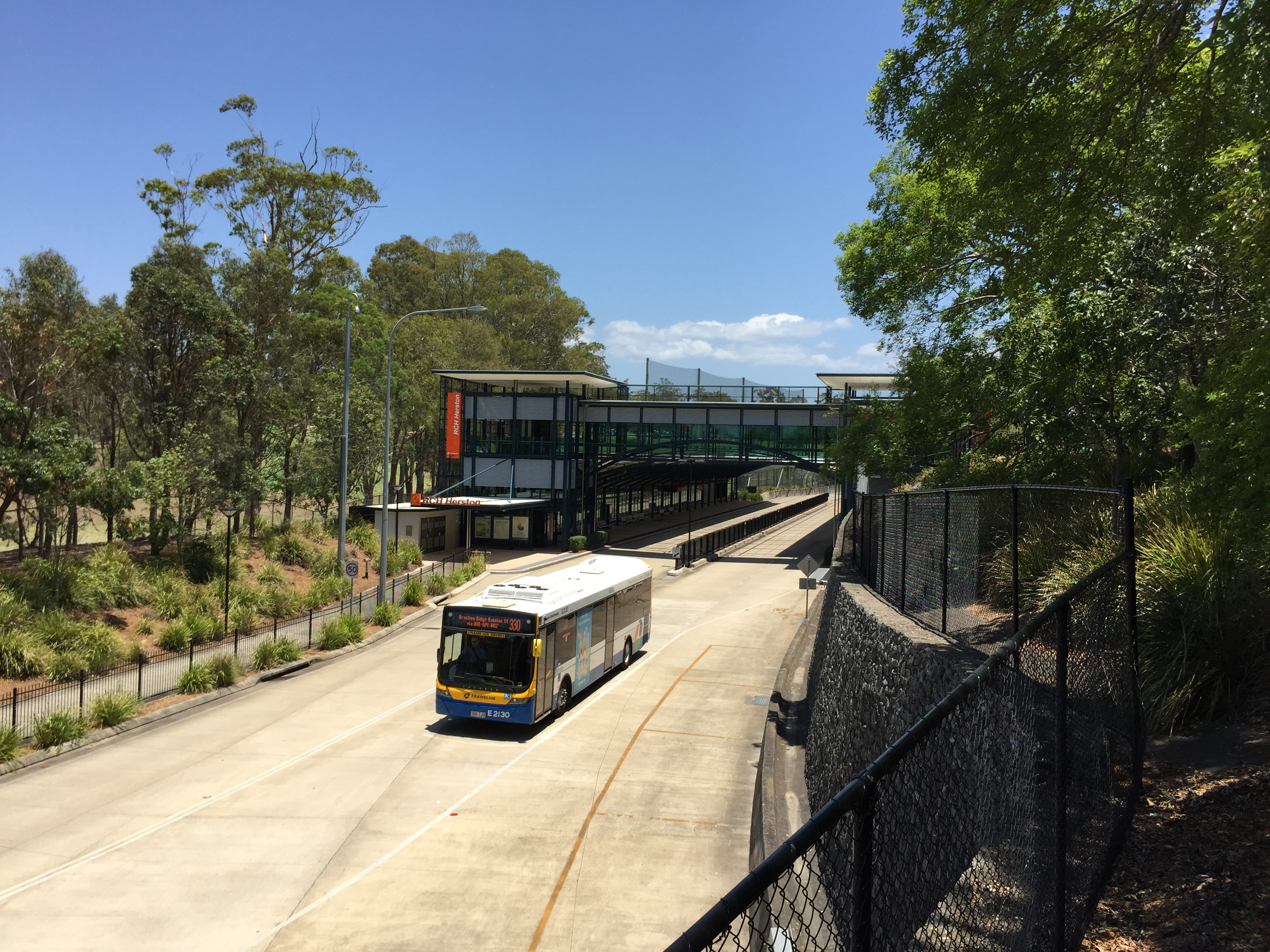 Herston busway station, Herston, and Northern Busway, Brisbane, Queensland, Australia in Nov 2014.